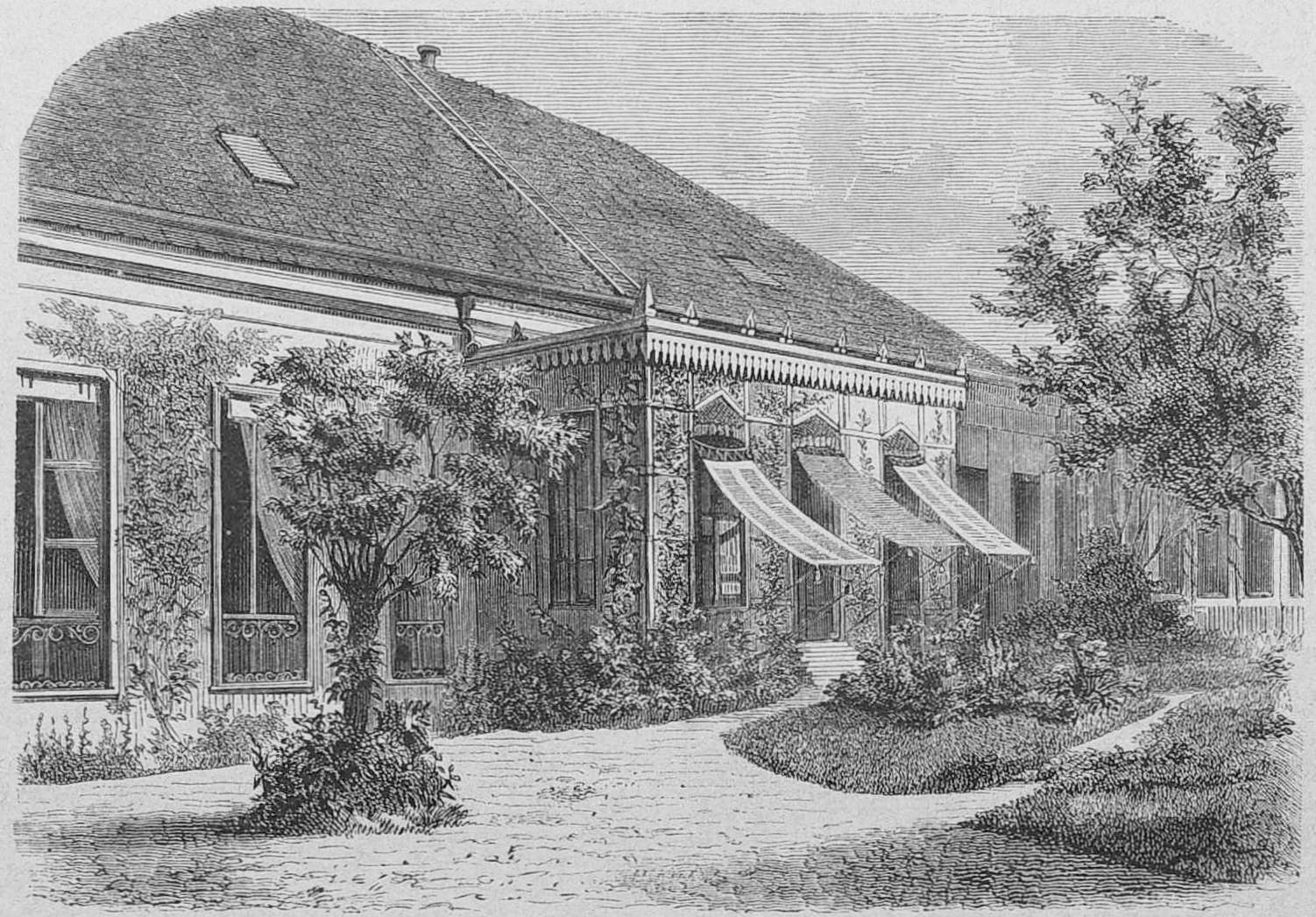 caption: "Villa Braunschweig in Hietzing."